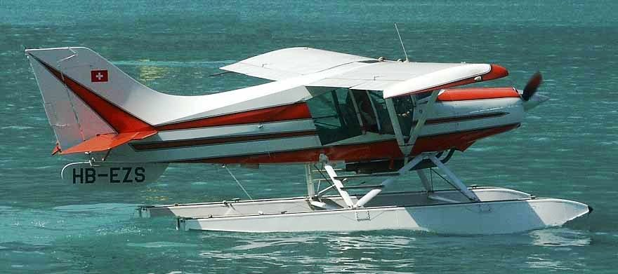 Maule M-5 seaplane, Switzerland